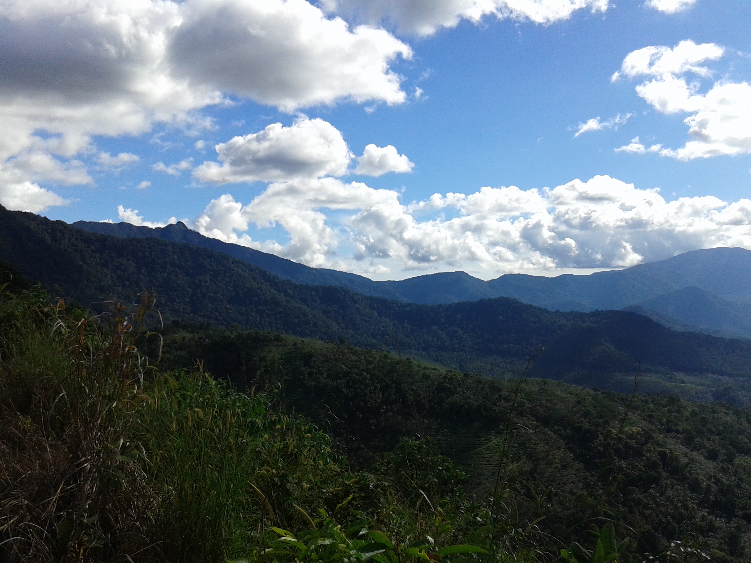 Elapeedika